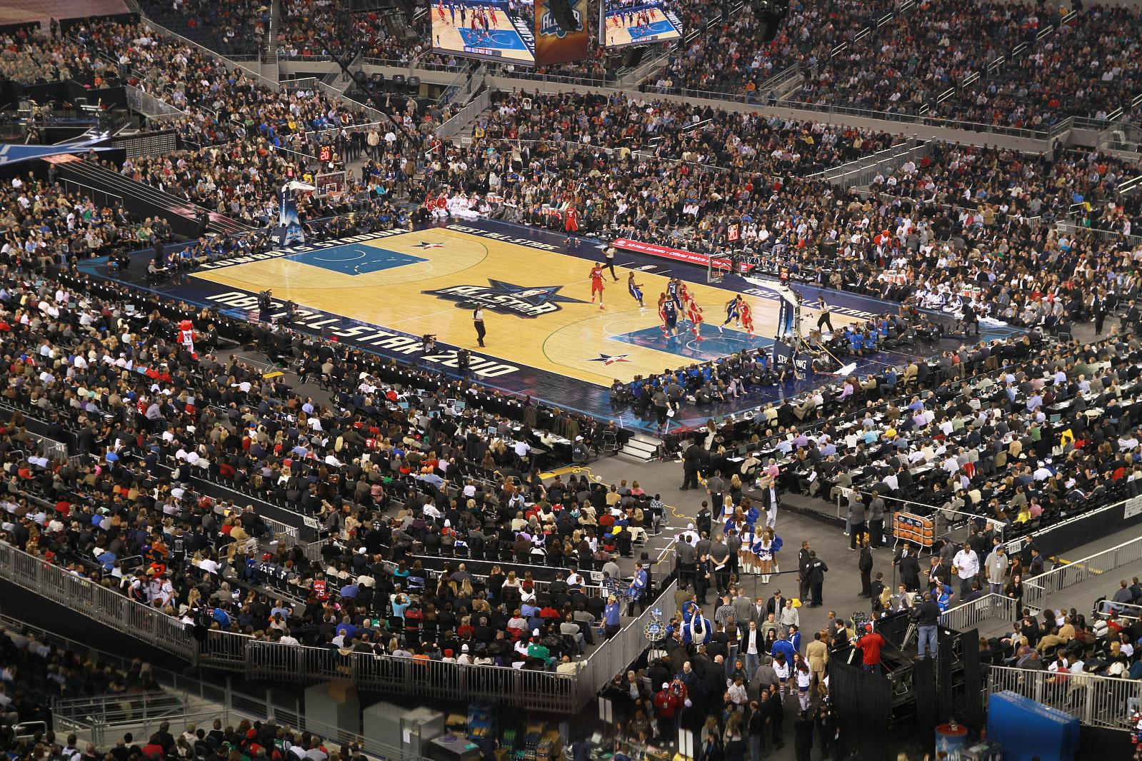 en:2010 NBA All-Star Game at Cowboys Stadium in Arlington, Texas. Licensed under a creative commons share-alike. Use freely but give attribution to Rondo Estrello, Dallas Art Nerd, and link to